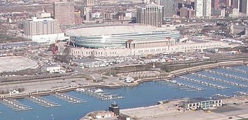 Soldier Field